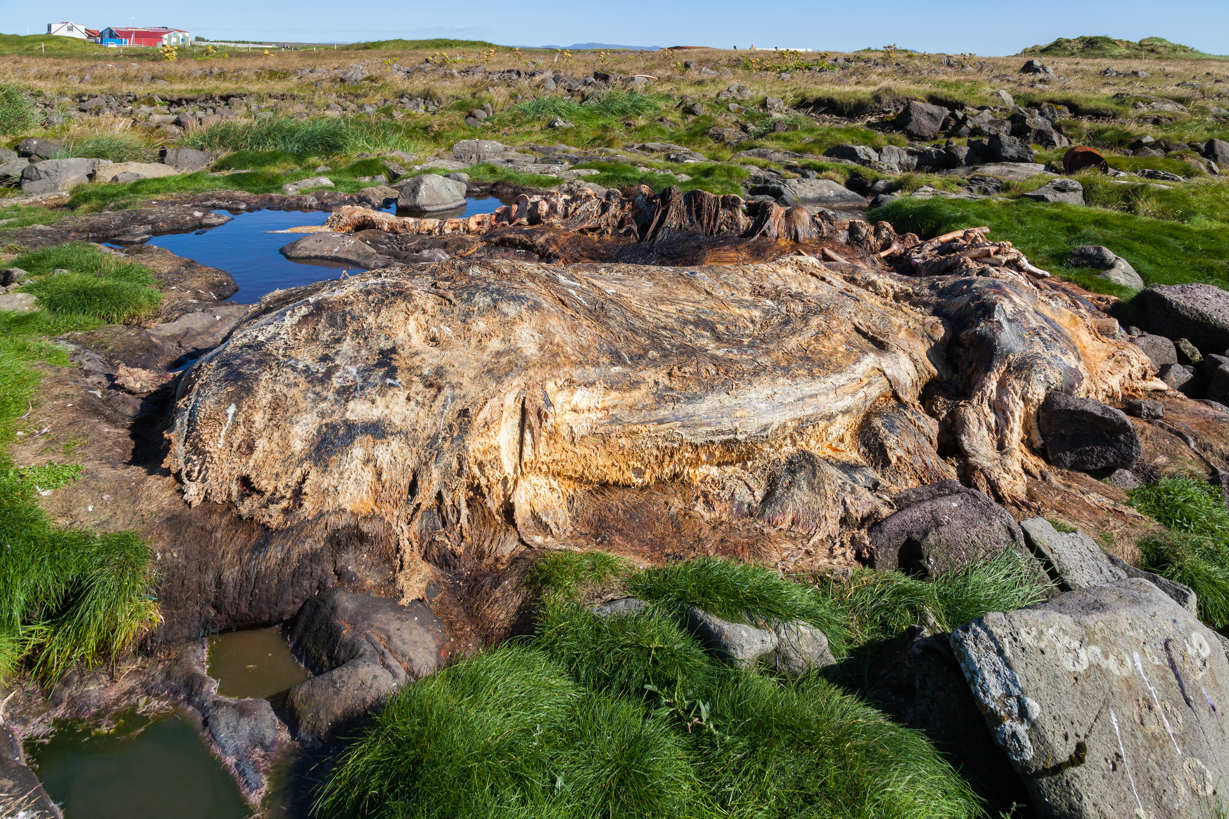 Wahle in decomposition, Stafnes, Suðurnes, Iceland